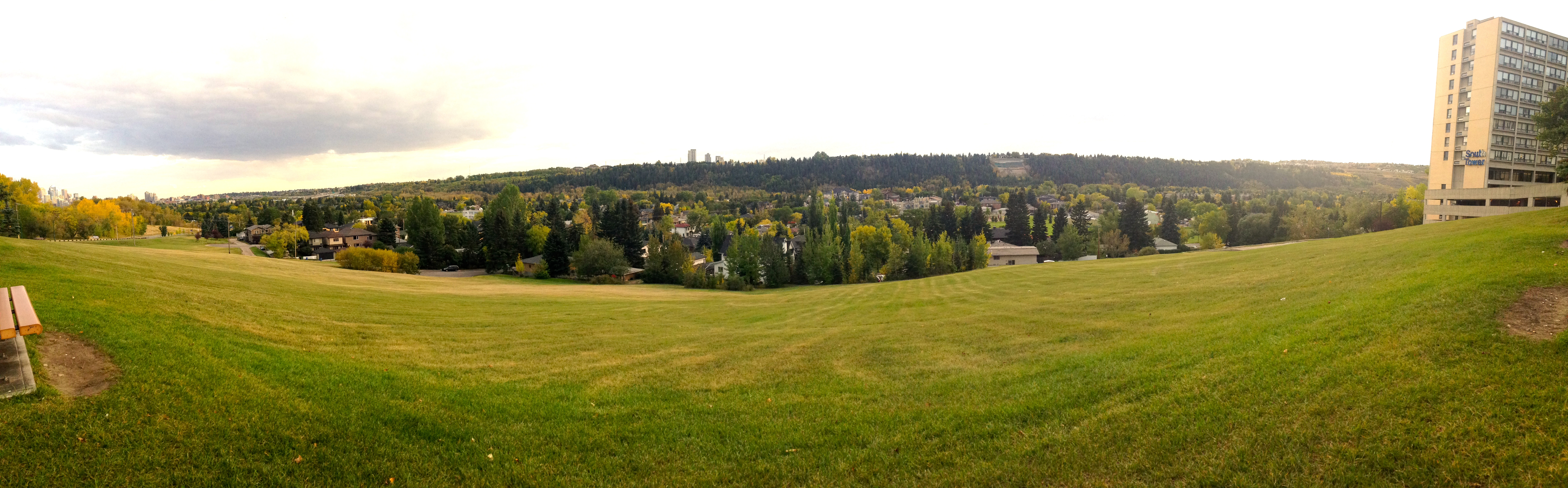 South view of Bow River valley in high resolution panorama